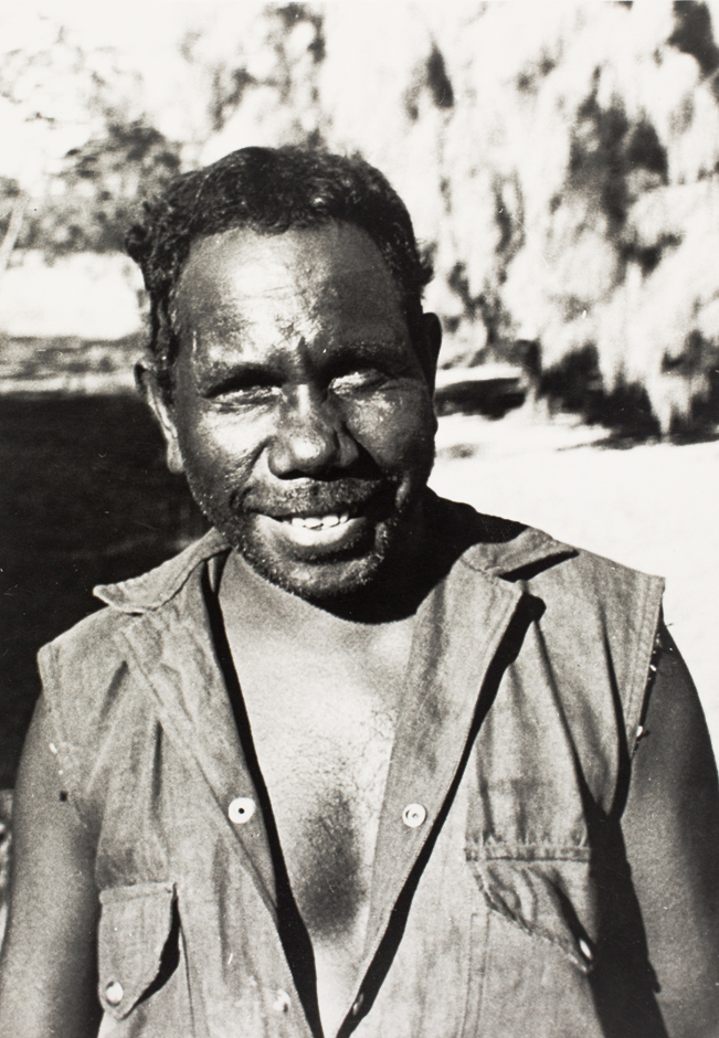 Mr. Dexter Daniels from the Roper River district. As an official of the North Australian Worker's Union he was responsible for calling attention to the poor wages and working conditions of Aboriginals in the NT cattle industry. Involved in the Wave Hill strike - PH0095-0012